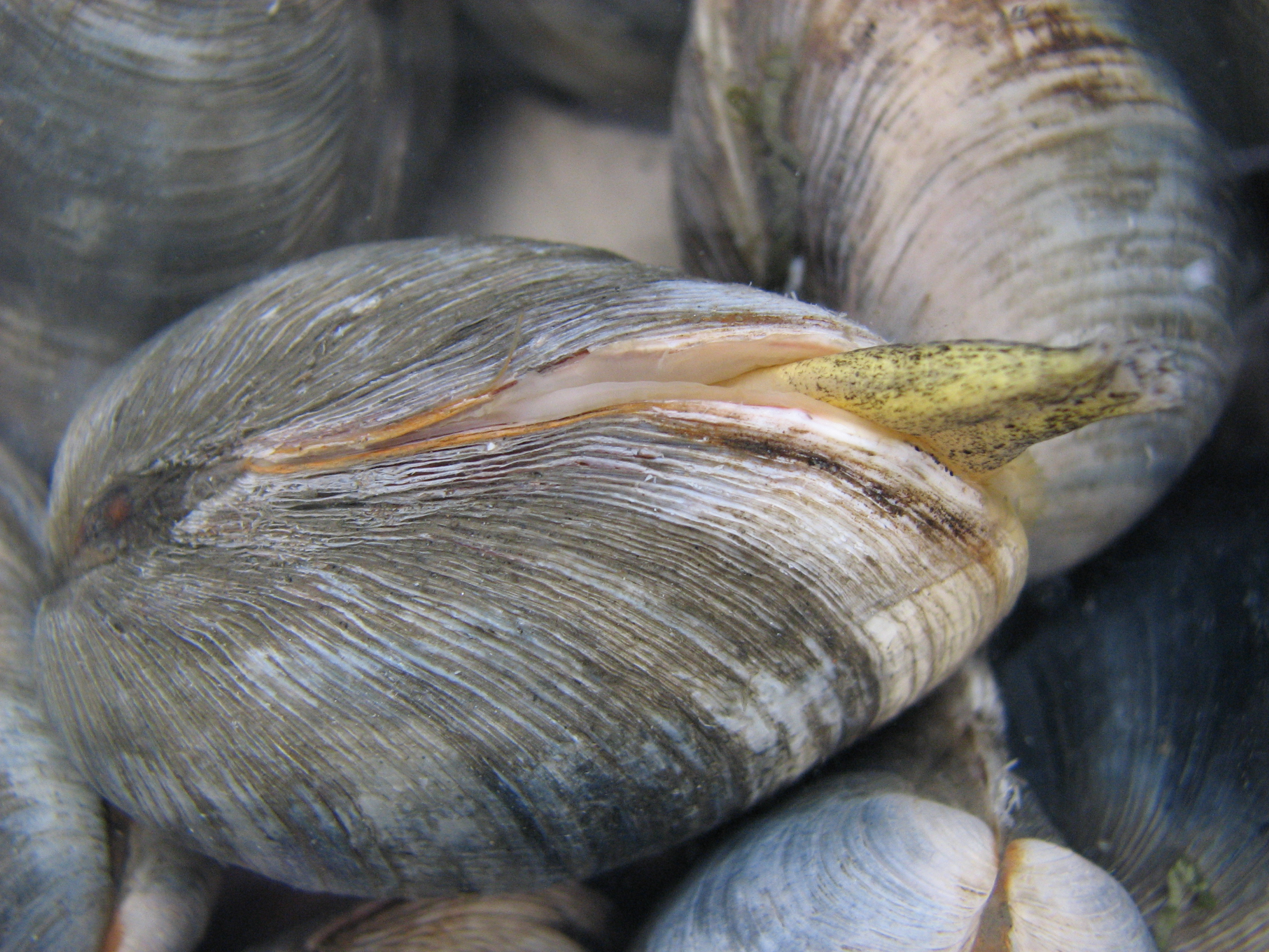 Mercenaria mercenaria